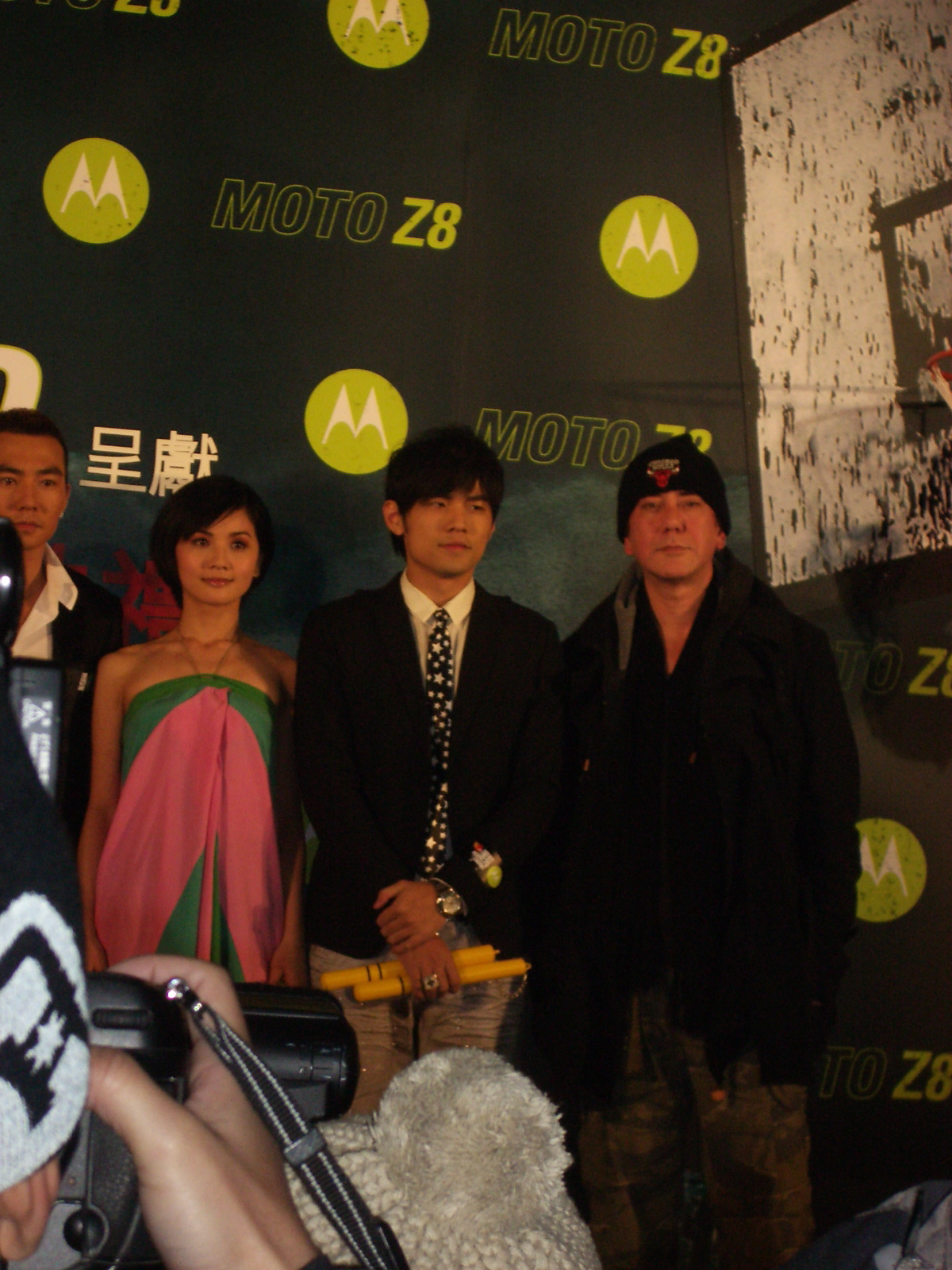 Kung Fu Dunk movie promo (left to right) Charlene Choi, Jay Chou, Anthony Wong, Chau SangBân-lâm-gú: 2008-nî tiān-iánn Kang-hu kuàn nâ kì-tsia-huē.(tsó khí Tshuà Tok-gián, Tsiu kia̍t-lûn, N̂g Tshiu-sing). 2008年電影《功夫灌籃》記者會(左起-蔡卓妍、周杰倫、黃秋生)